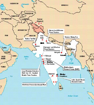 Tracking Nuclear Proliferation, India. Adapted from the Carnegie Endowment for International Peace, Tracking Nuclear Proliferation, 1995.